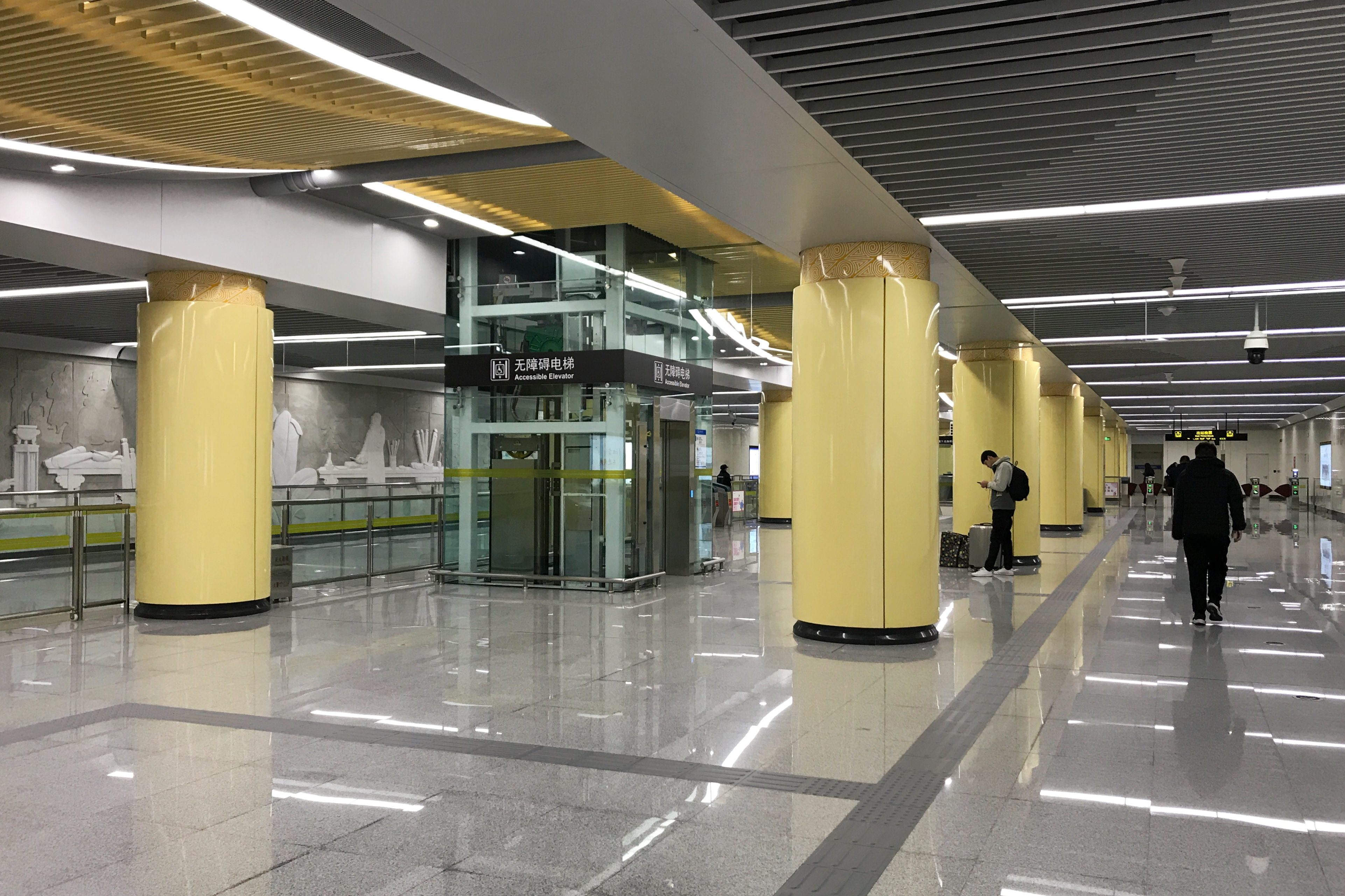 Concourse of Huangheyingbinguan Station